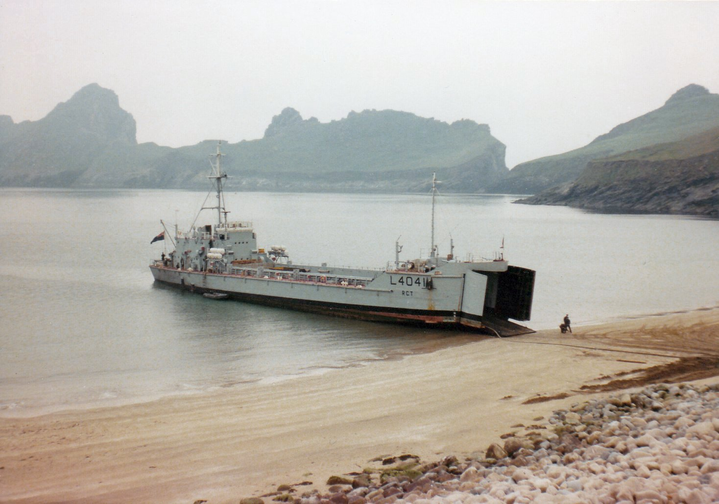 L4041 HMAV Abbeville beached in Village Bay